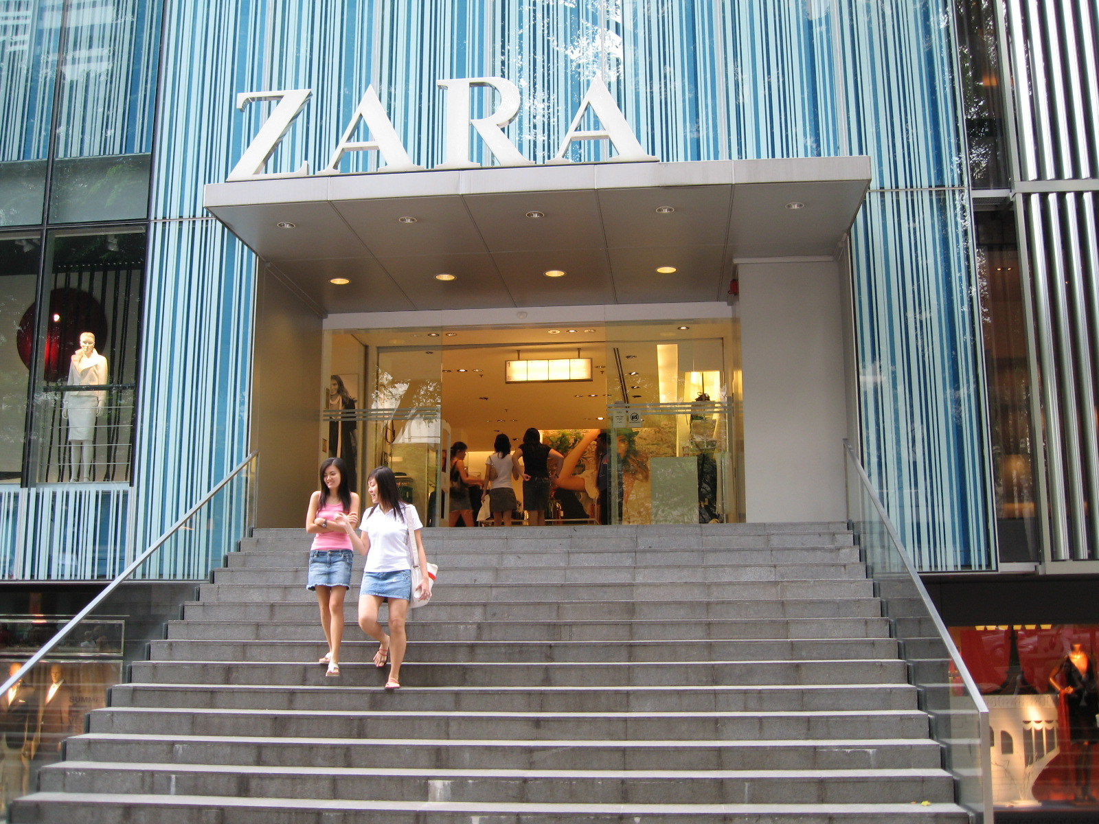 A Zara store at Liat Towers, Singapore.